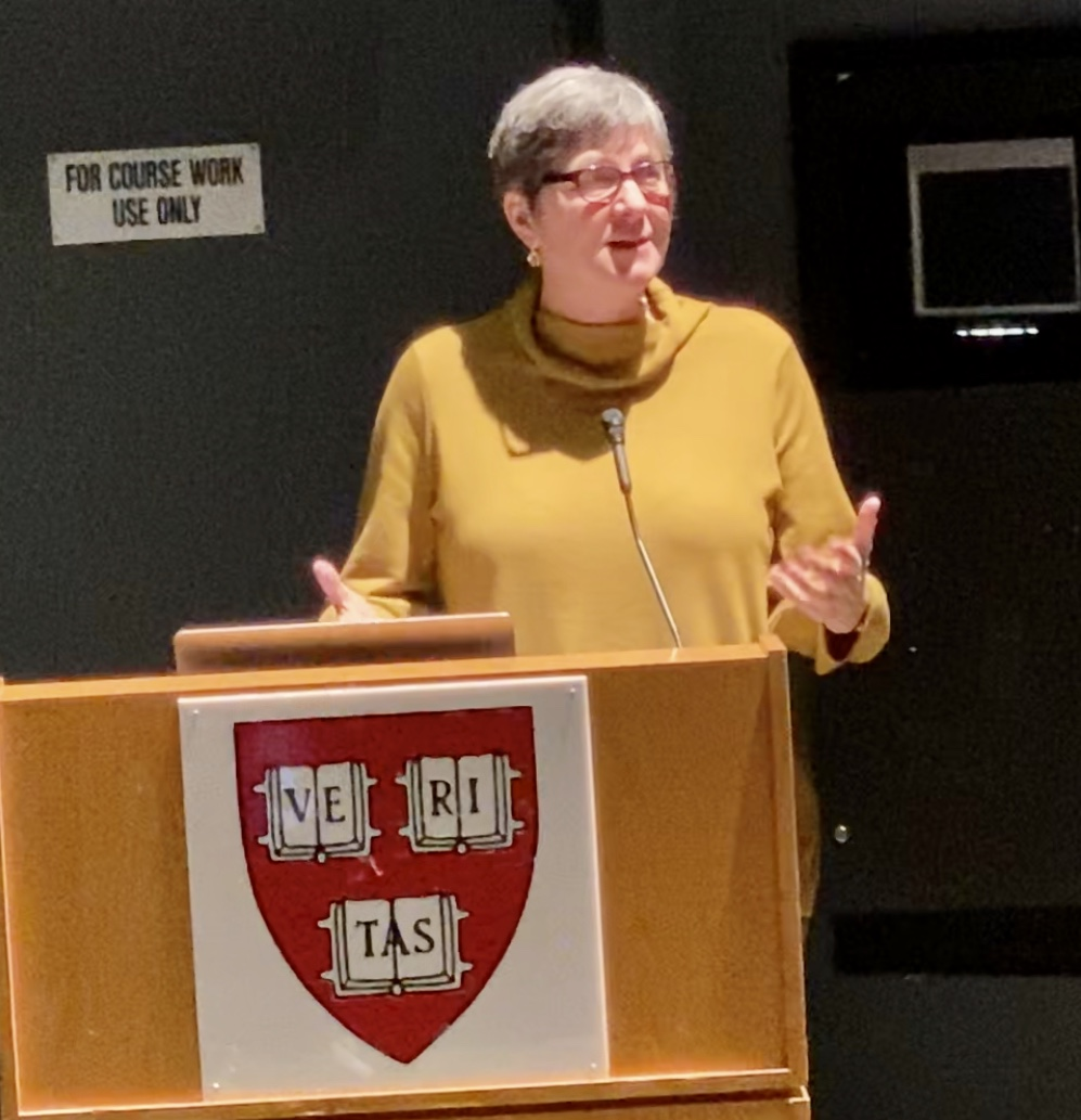 Professor Melissa Franklin giving a talk at Harvard University.